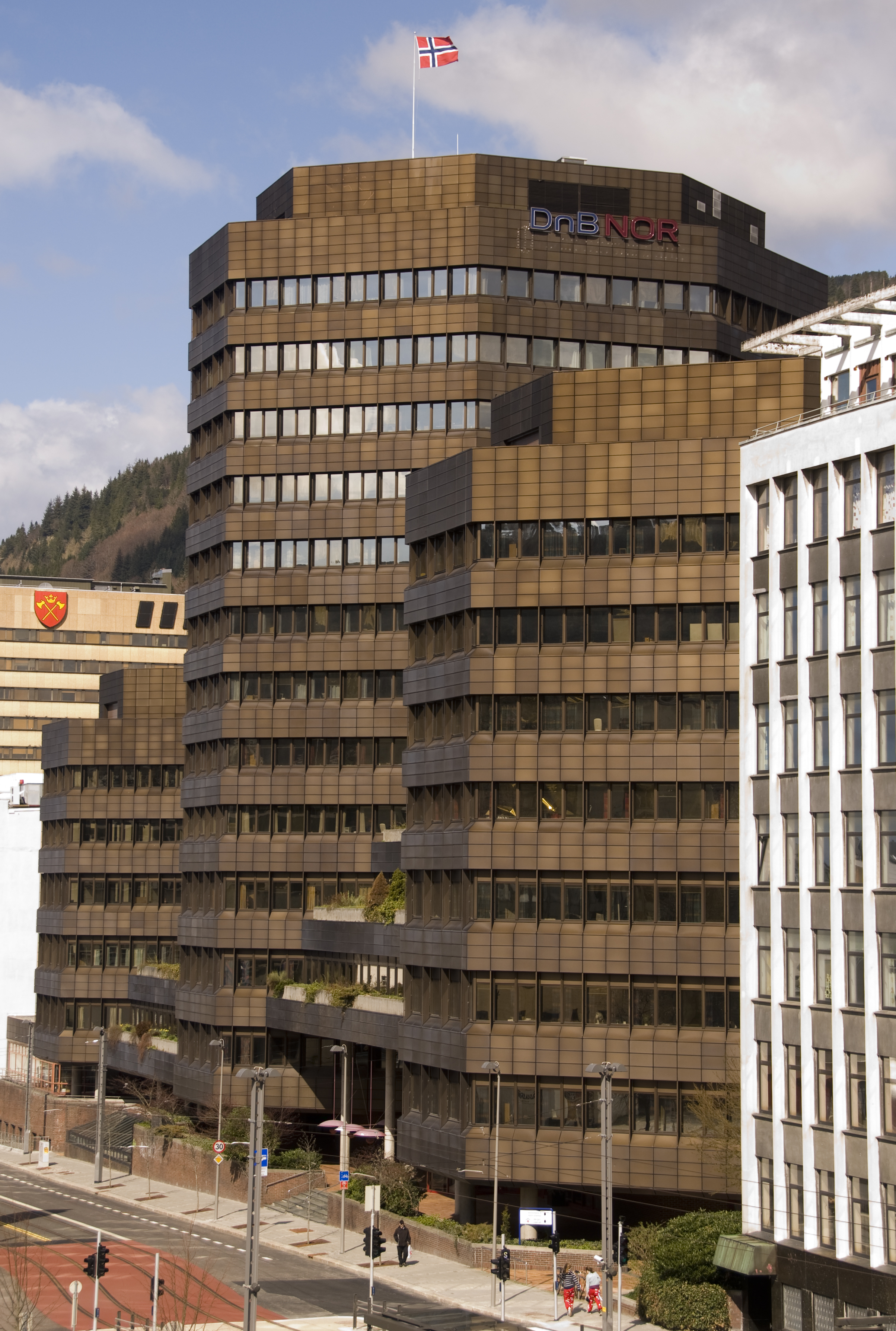 DnB NOR office in Bergen, Norway. Former head office of Den norske Bank (DnB) and Bergen Bank.